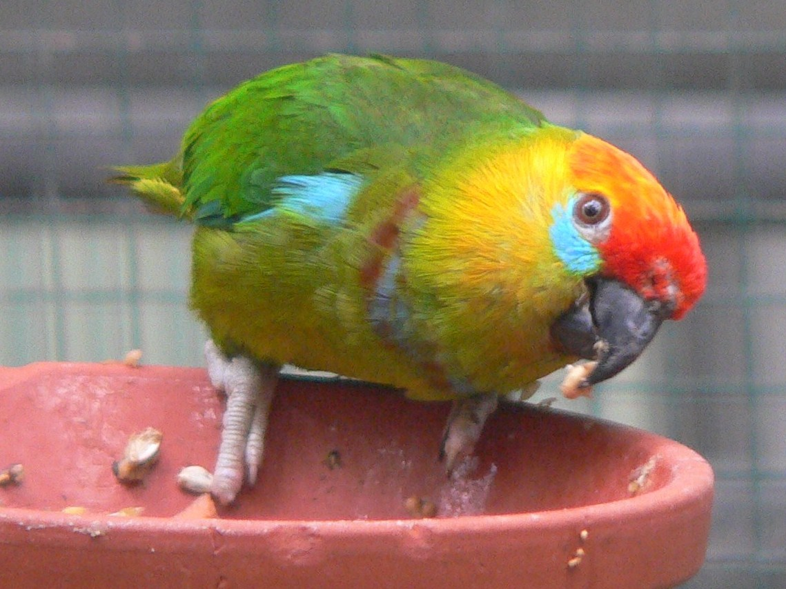 An adult Large Fig Parrot in captivity.